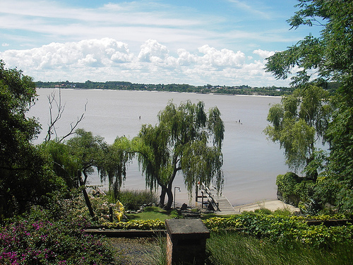 Uruguay River in the Colonia department